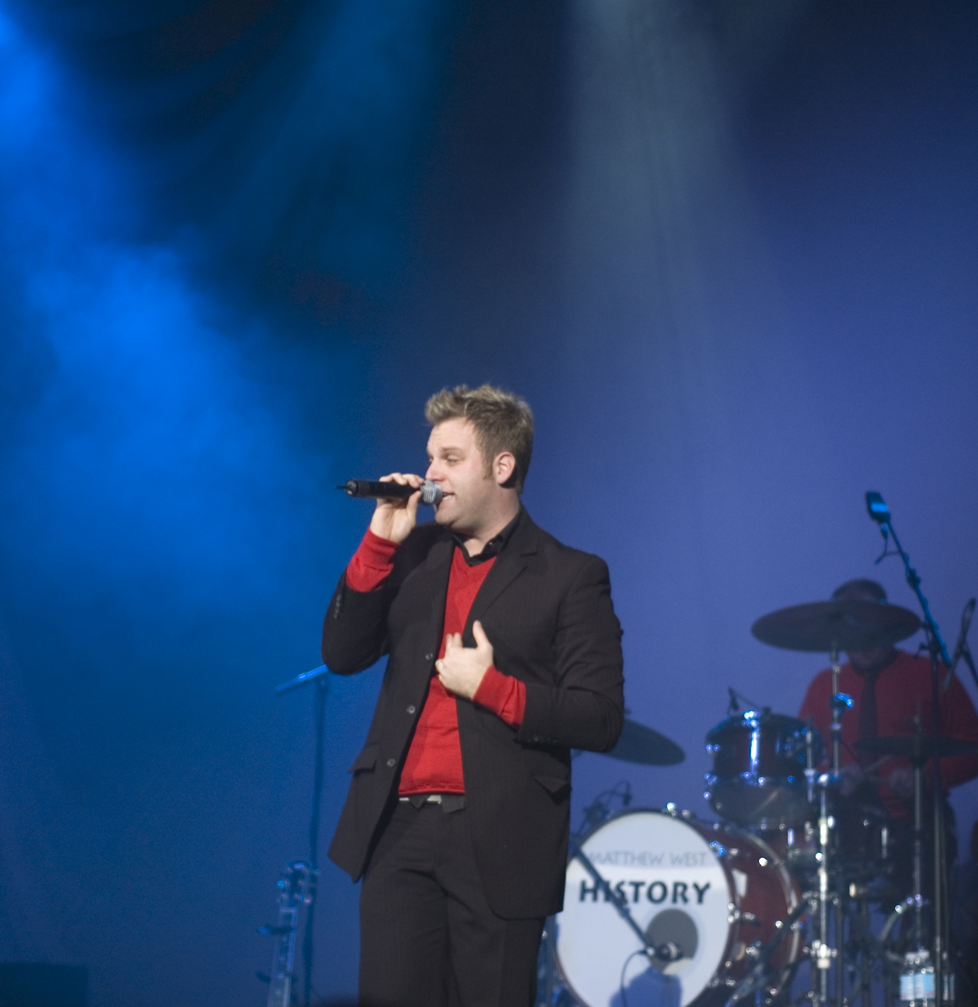 Matthew West performing at a concert on TobyMac's Winter Wonder Slam tour in 2005. Photo taken on December 3, 2005.